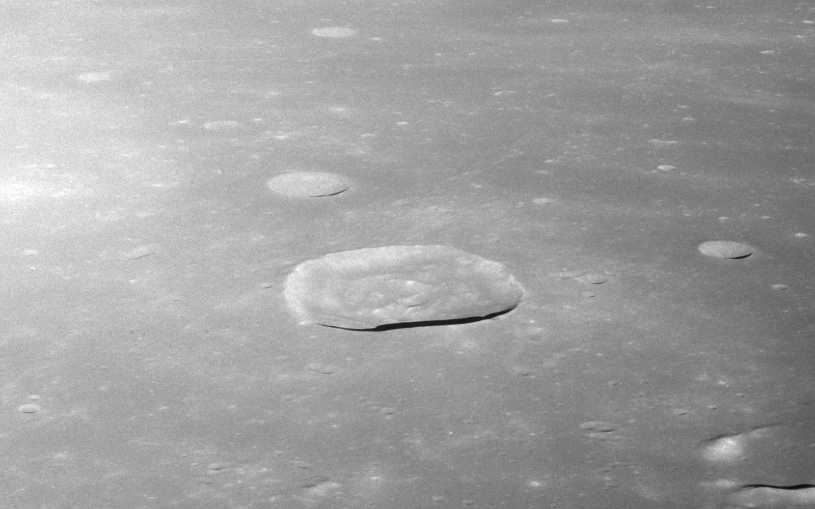 Highly oblique view of Maskelyne at center, with Maskelyne B above center, Maskelyne G near top center, Maskelyne X and Y in upper left, and Maskelyne K at right. Facing west.